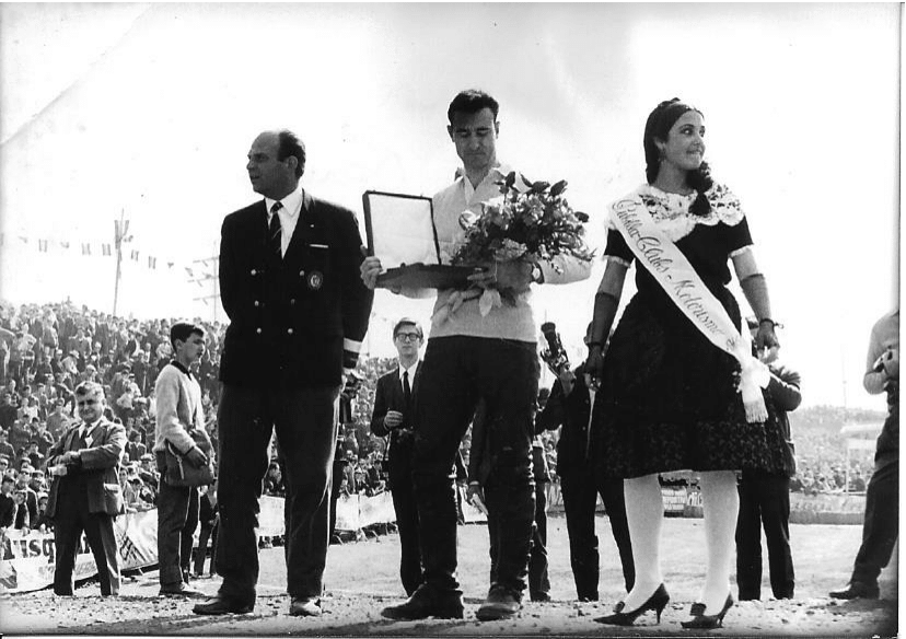 Tribute to Oriol Puig Bultó because of his withdrawal from motocross races, during the 1967 Spanish Grand Prix of Motocross 250cc, held on April 3 at the Circuit de Santa Rosa, in Santa Coloma de Gramenet (the tribute was held on Saturday, 2, during a national race)